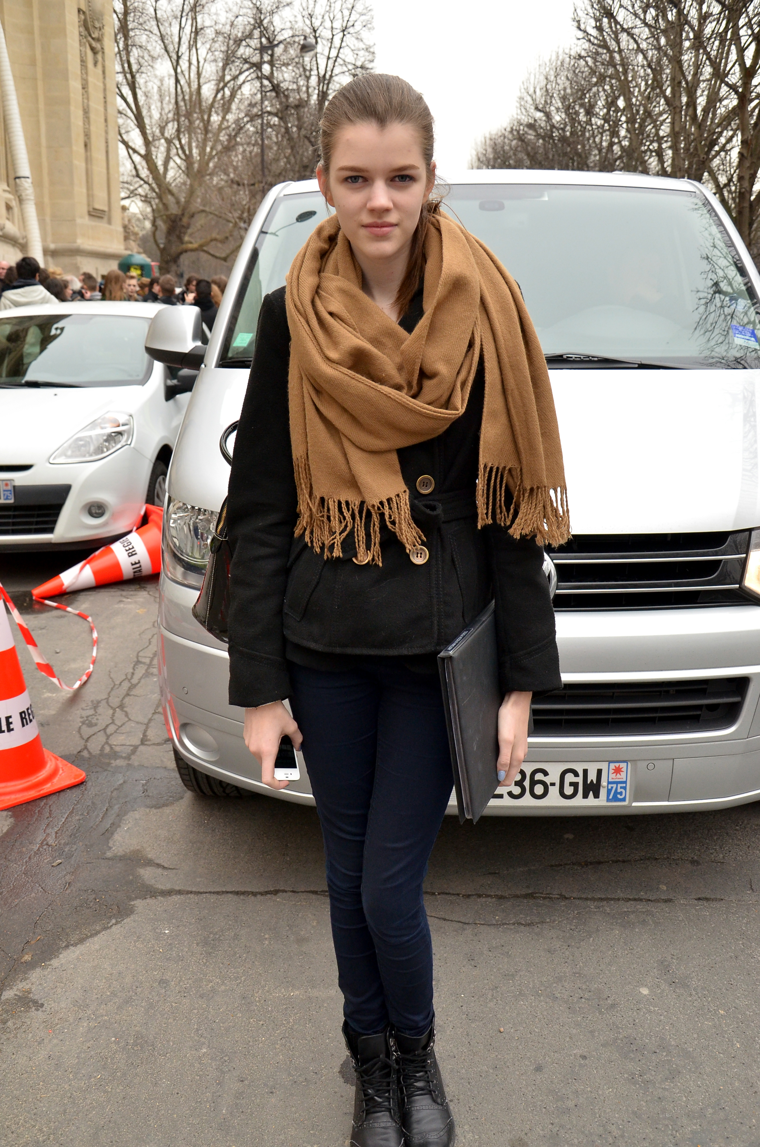 Antonia Wesseloh after the Chanel SS2012 Haute Couture show